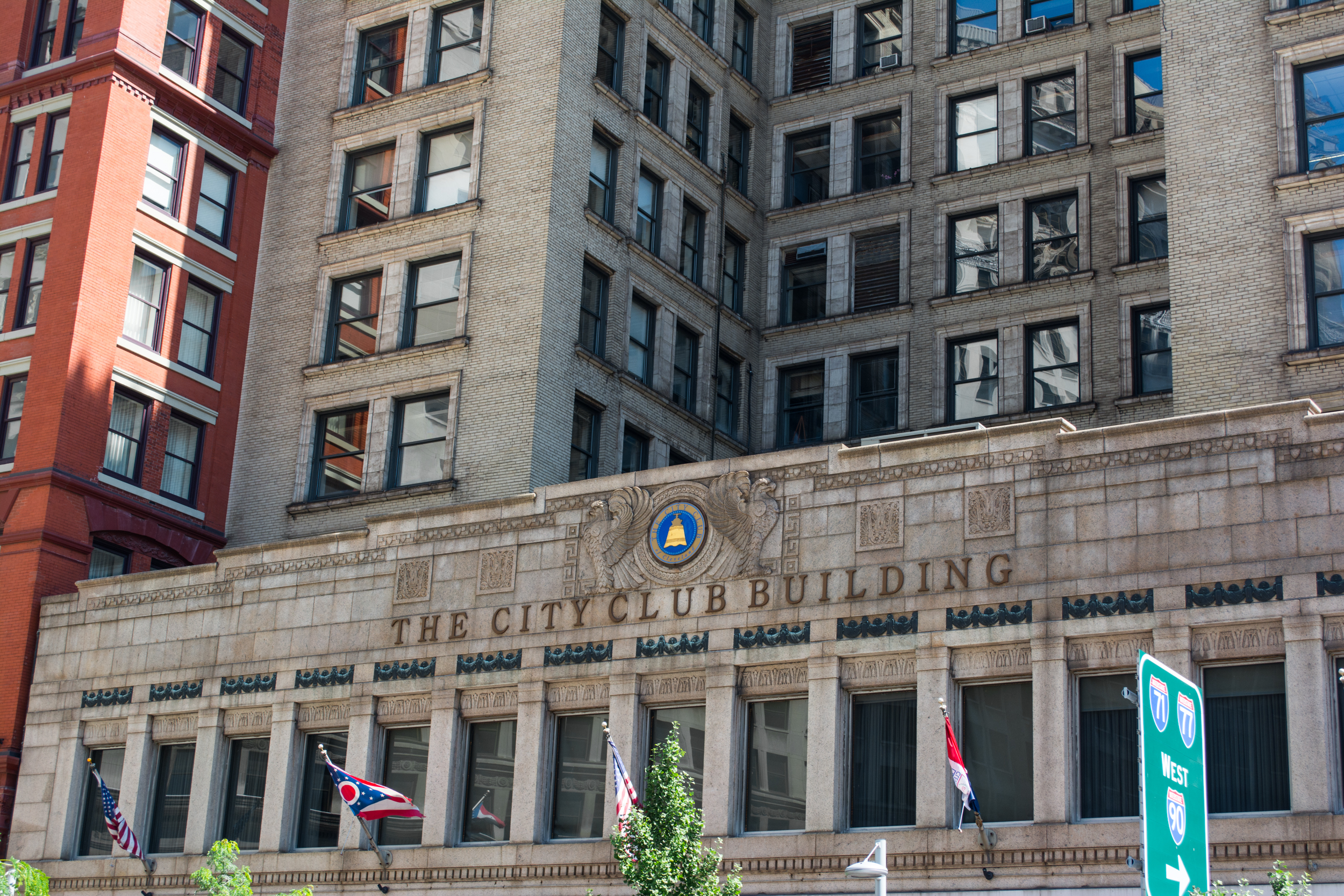 Facade of the City Club Building (formerly the Citizens Building), located at 850 Euclid Avenue in Cleveland, Ohio, in the United States. The main structure in the rear was designed by the architectural firm of Hubbell & Benes, and completed in 1903. The foreground structure was designed by Harry D. Hughes and completed in 1924.